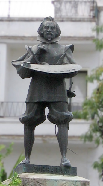 Monument of Francisco Zurbarán in Badajoz, Spain